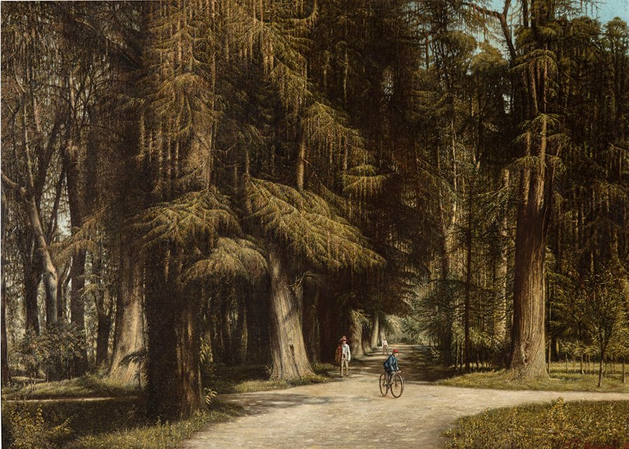 Crossroad in the Forest by Julius Robert Hoening (1835-1904), oil on canvas, New Orleans Museum of Art